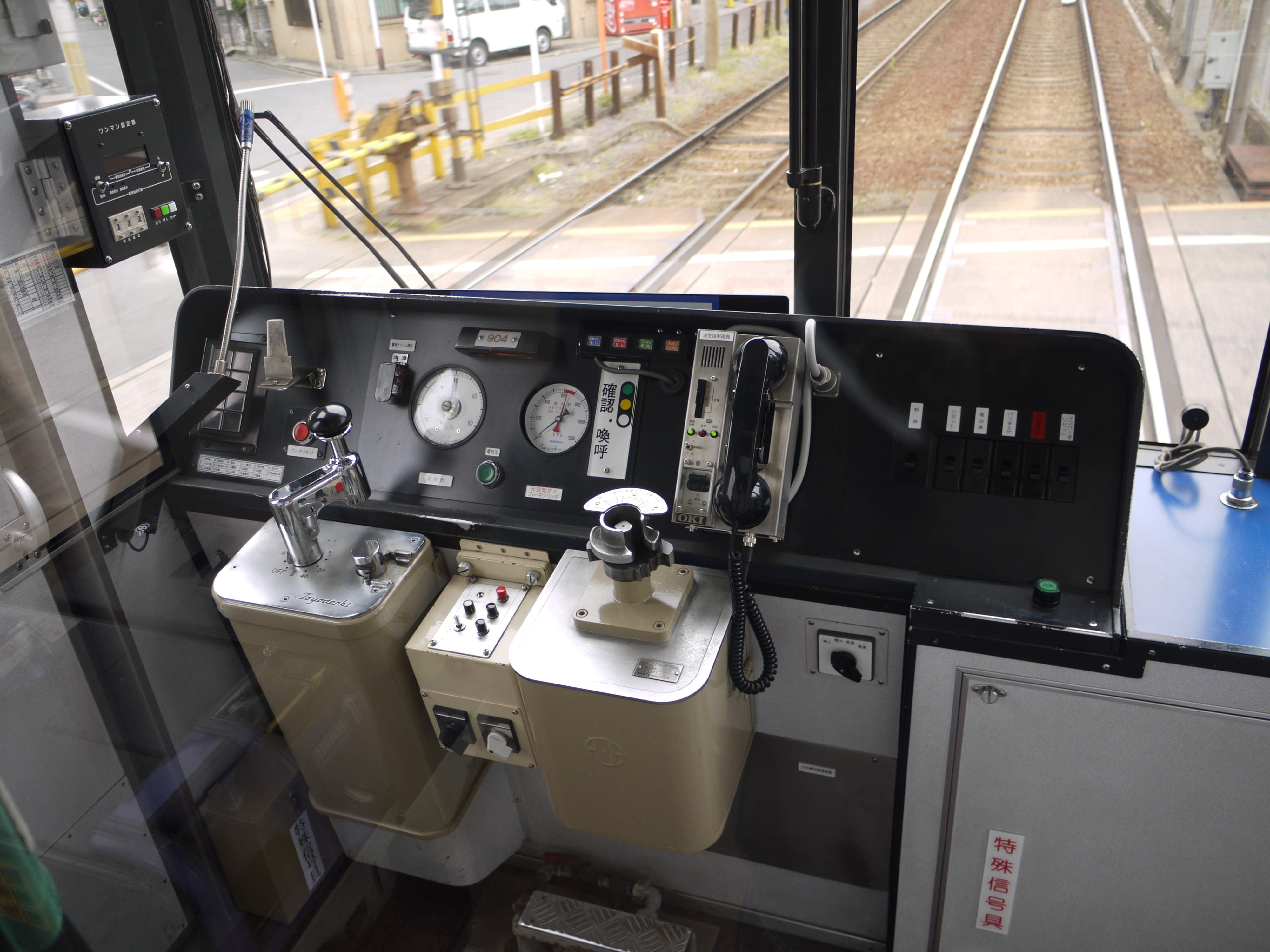 Drivers cabin on Eiden Deo 904